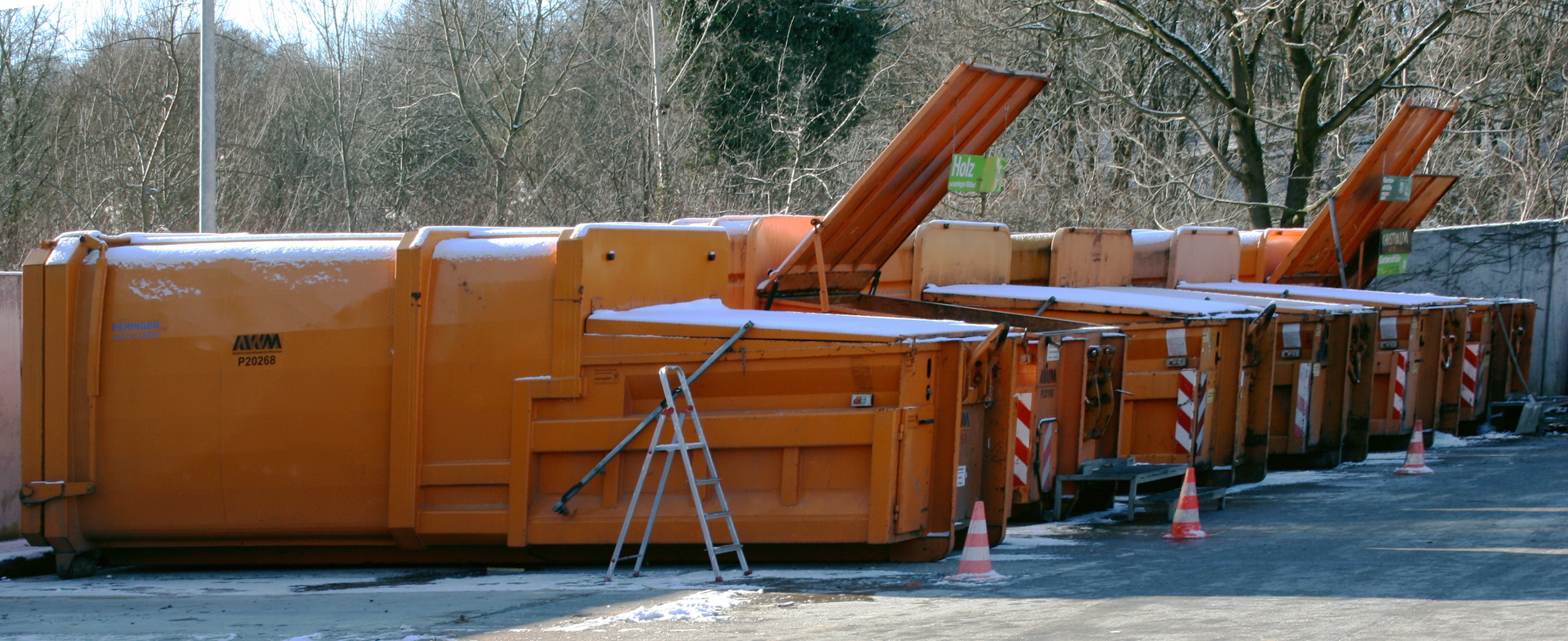 Containers in the recycling center in Munich